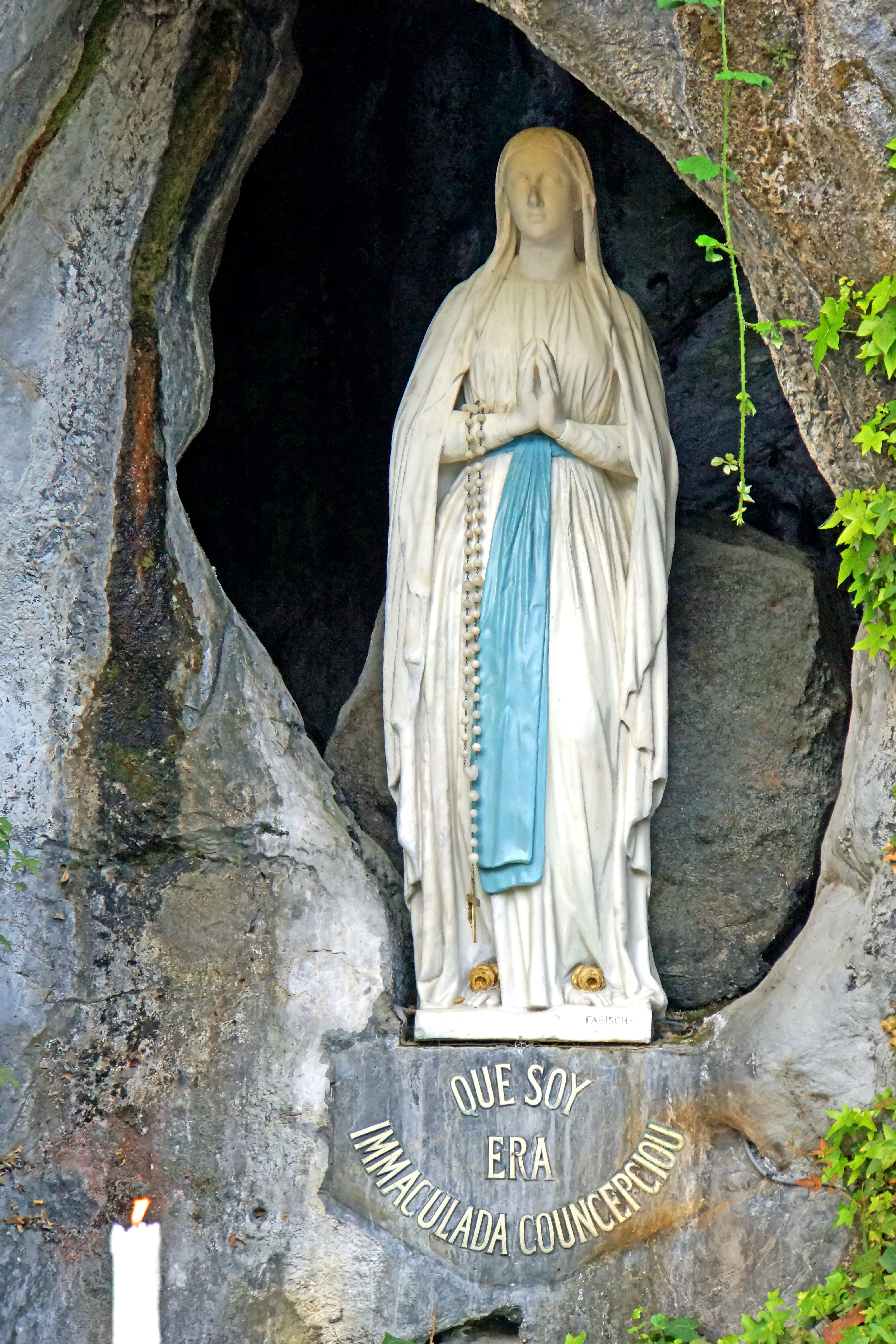 PLEASE, NO invitations or self promotions, THEY WILL BE DELETED. My photos are FREE to use, just give me credit and it would be nice if you let me know, thanks.